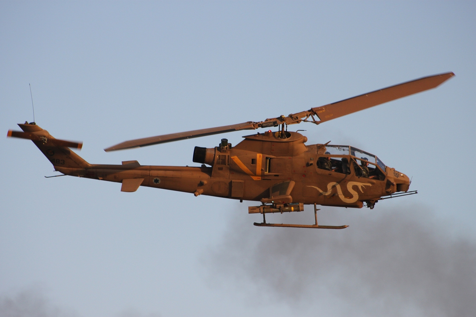 AH-1 during live fire demonstration, June 28, 2011, Israeli Air Force Flight Academy ranks ceremony.